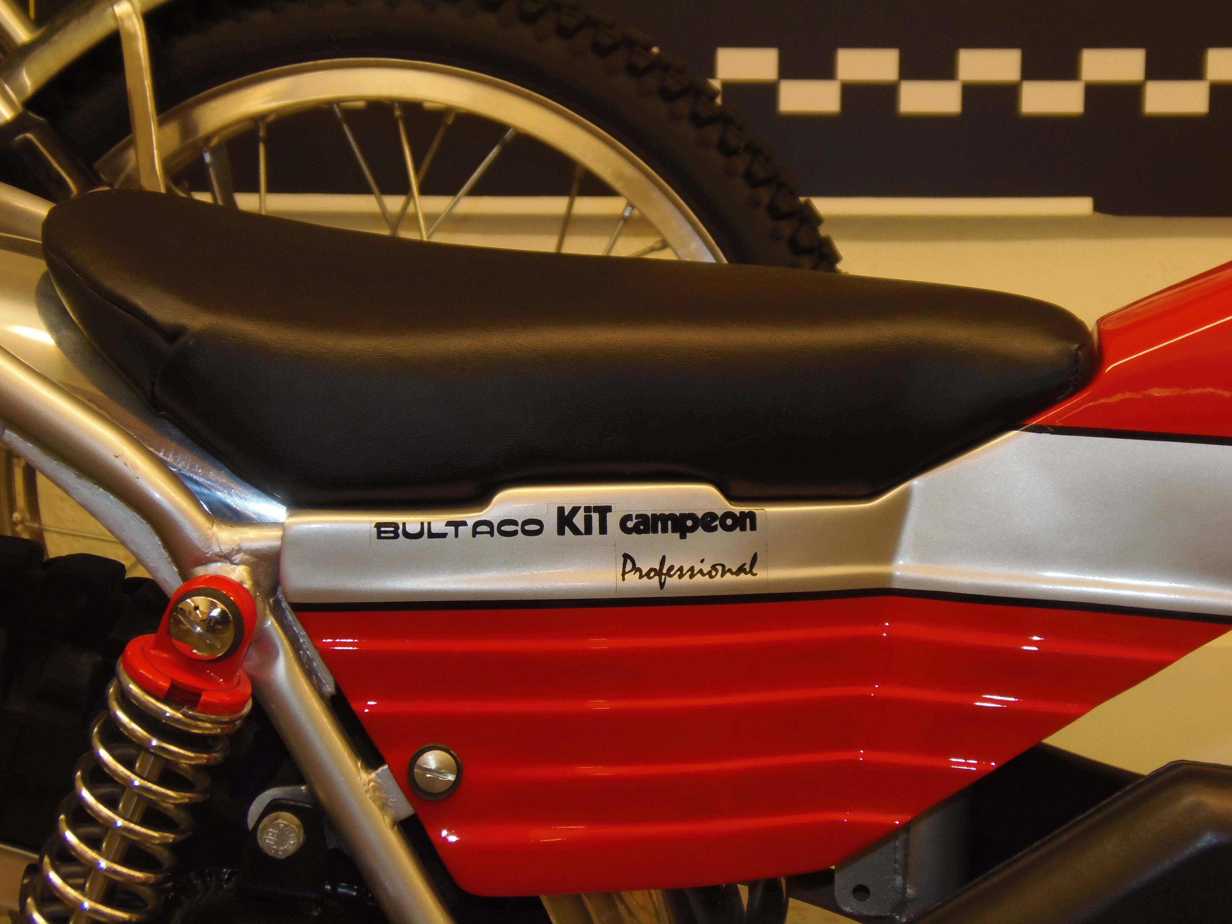 The logo "Kit Campeon" of a Bultaco Sherpa T Model 80, 250 cc, 1971